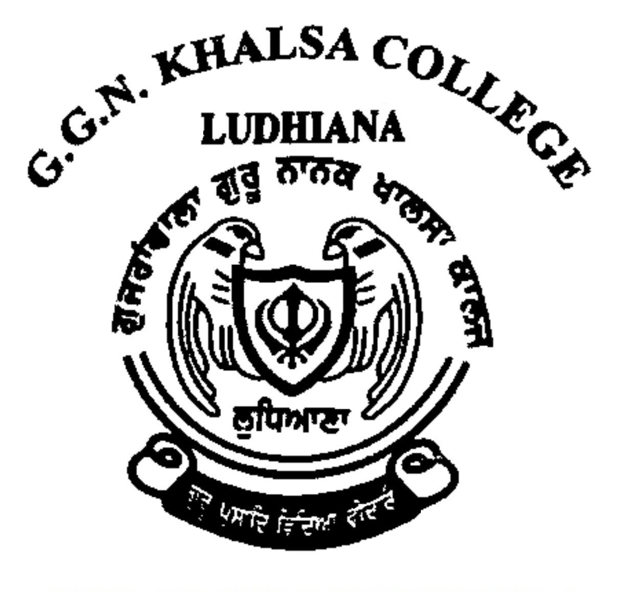 College Logo of GGNKCL